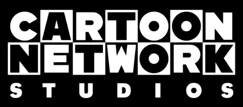 The fifth Cartoon Network Studios' logo.